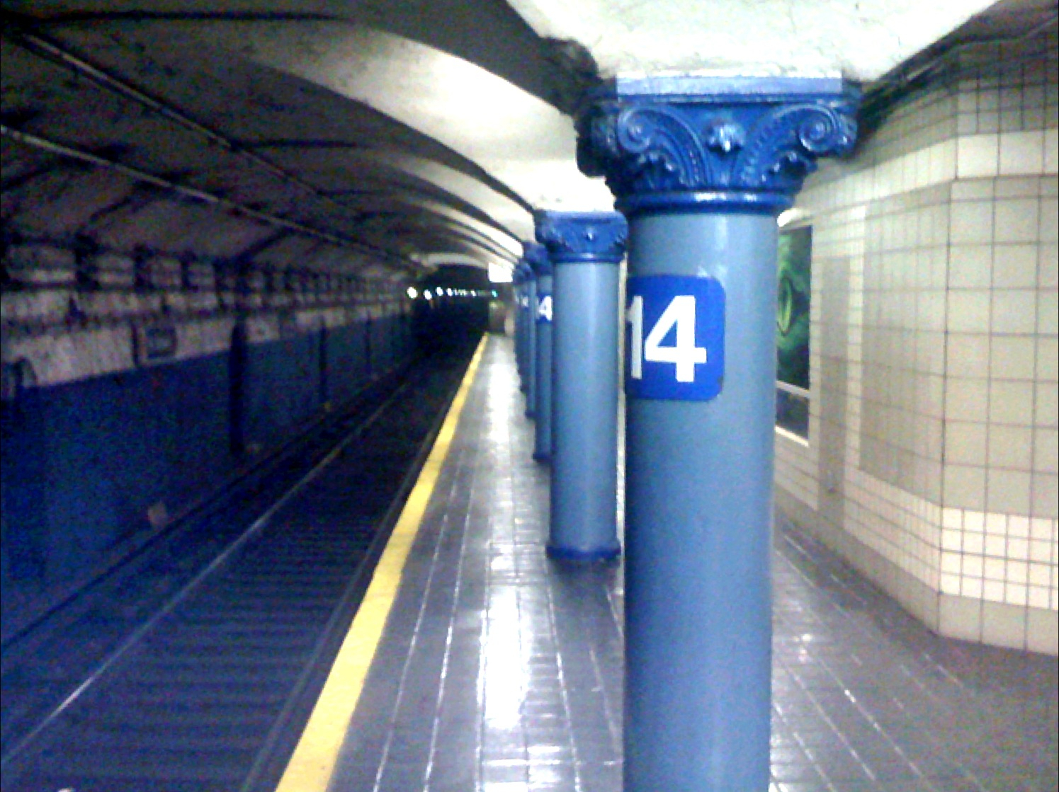 14th Street (PATH station)